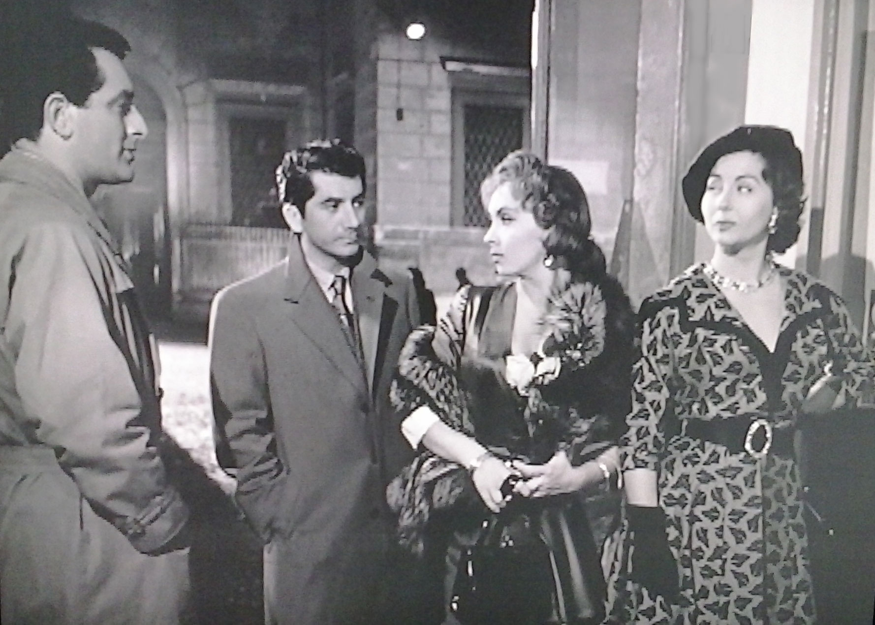 Woman of Rome (1954)